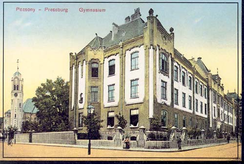 Historická fotografia bývalého kráľovského katolíckeho gymnázia v Bratislave(dnes Gymnázium Grosslingová) This medium shows the protected monument with the number 101-256/3 in the Slovak Republic.